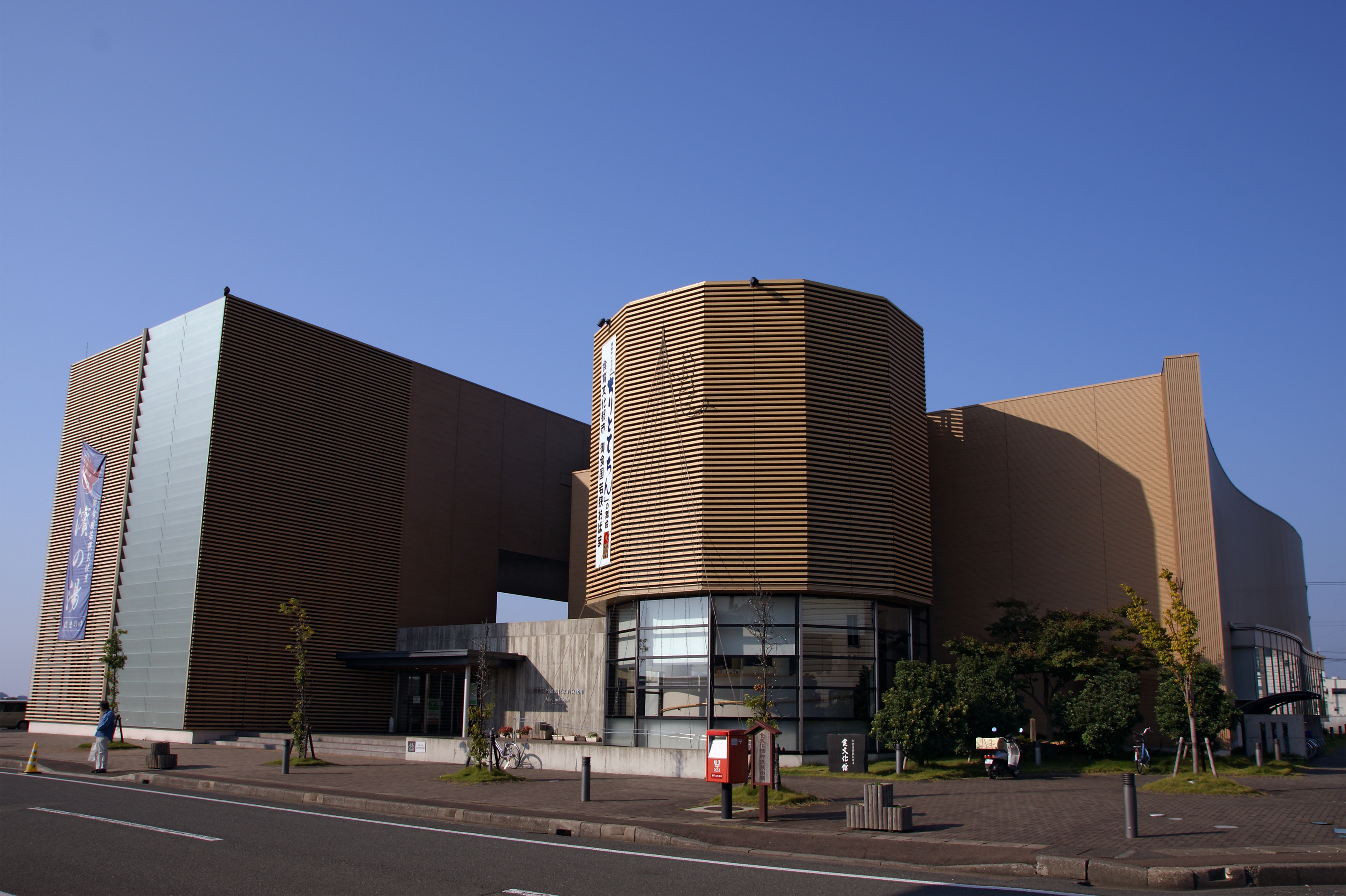 The Mermaid Plaza, Obama, Fukui prefecture, Japan